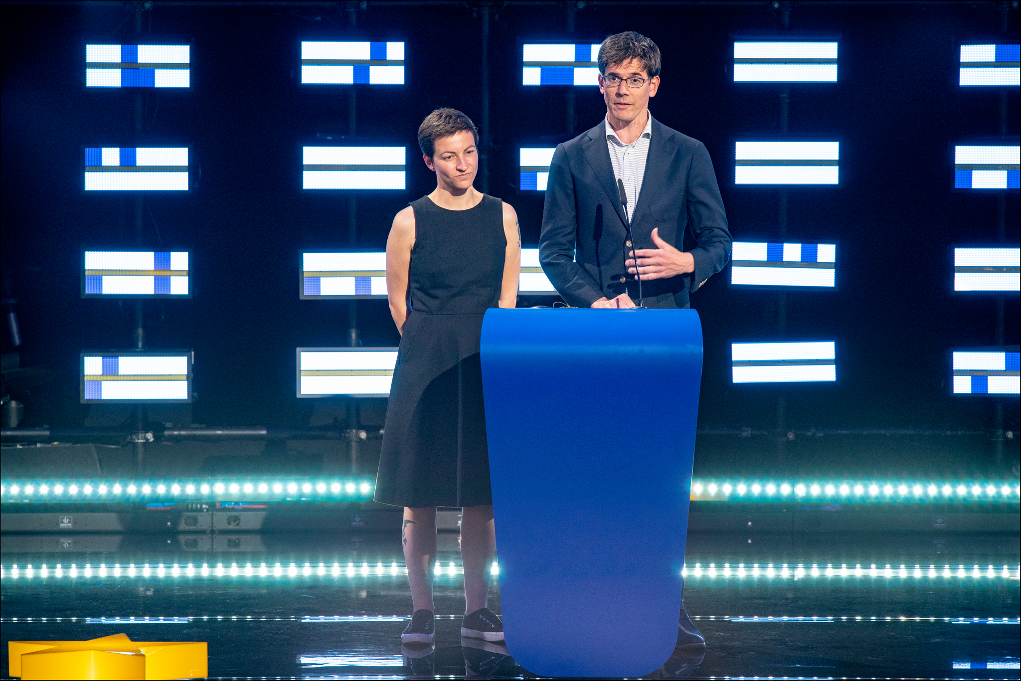 This photo is free to use under Creative Commons license CC-BY-4.0 and must be credited: "CC-BY-4.0: © European Union 2019 – Source: EP". No model release form if applicable. For bigger HR files please contact: webcom-flickr(AT)